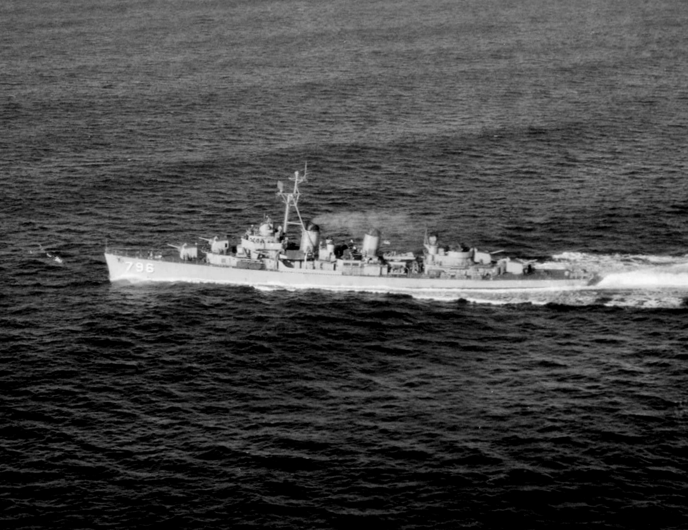 The U.S. Navy destroyer USS Benham (DD-796) underway off the Brenton Reef Light Ship, Narragansett Bay, Rhode Island (USA), on 30 November 1951.